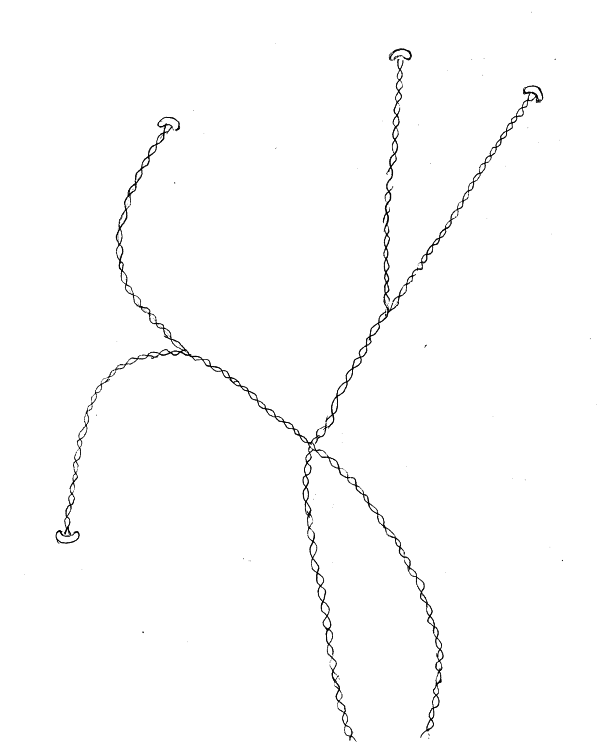 Gallionella: branched bands with cells at the tips